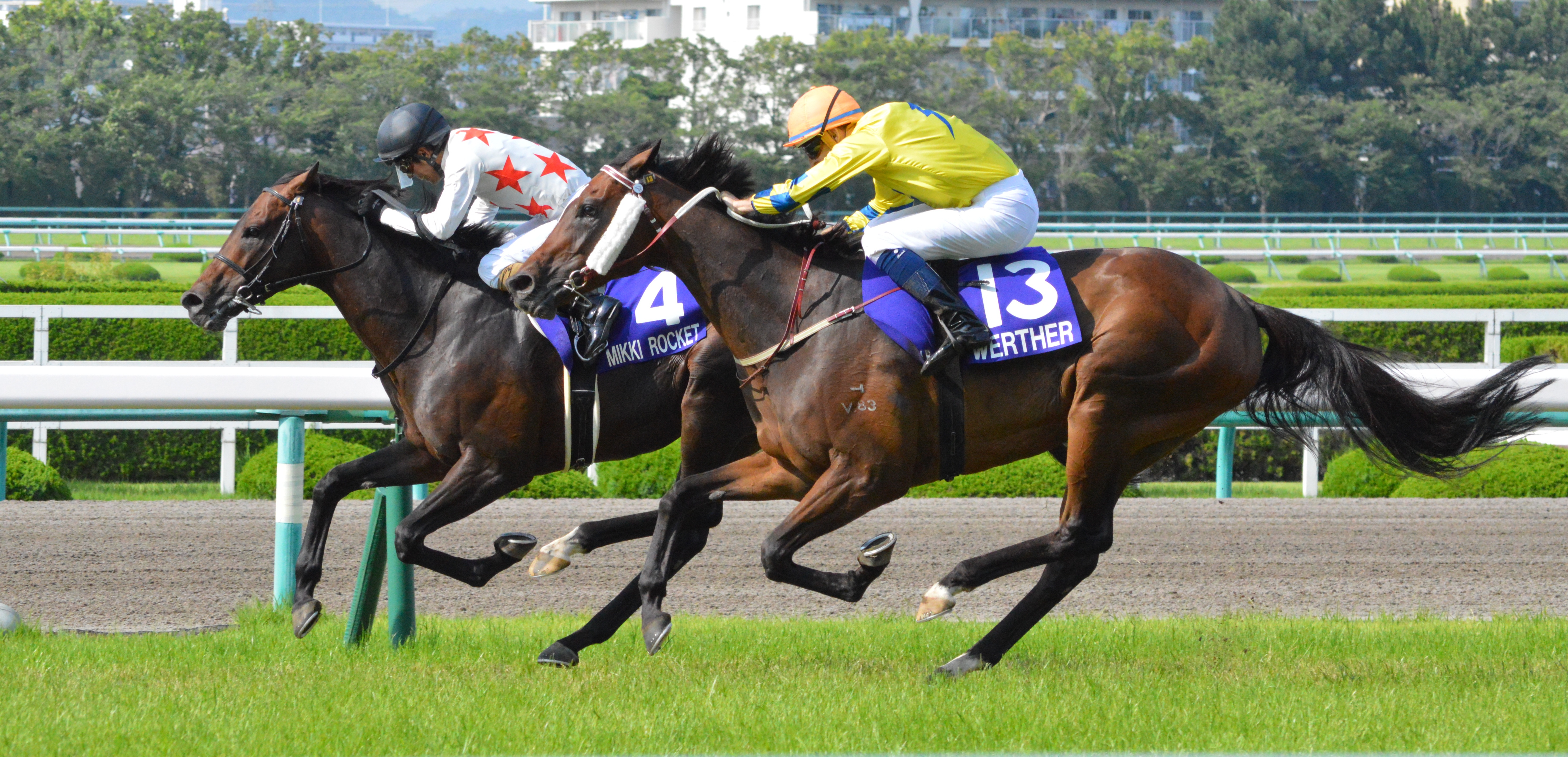 Japanese race horse Mikki Rocket at Hanshin racecourse.